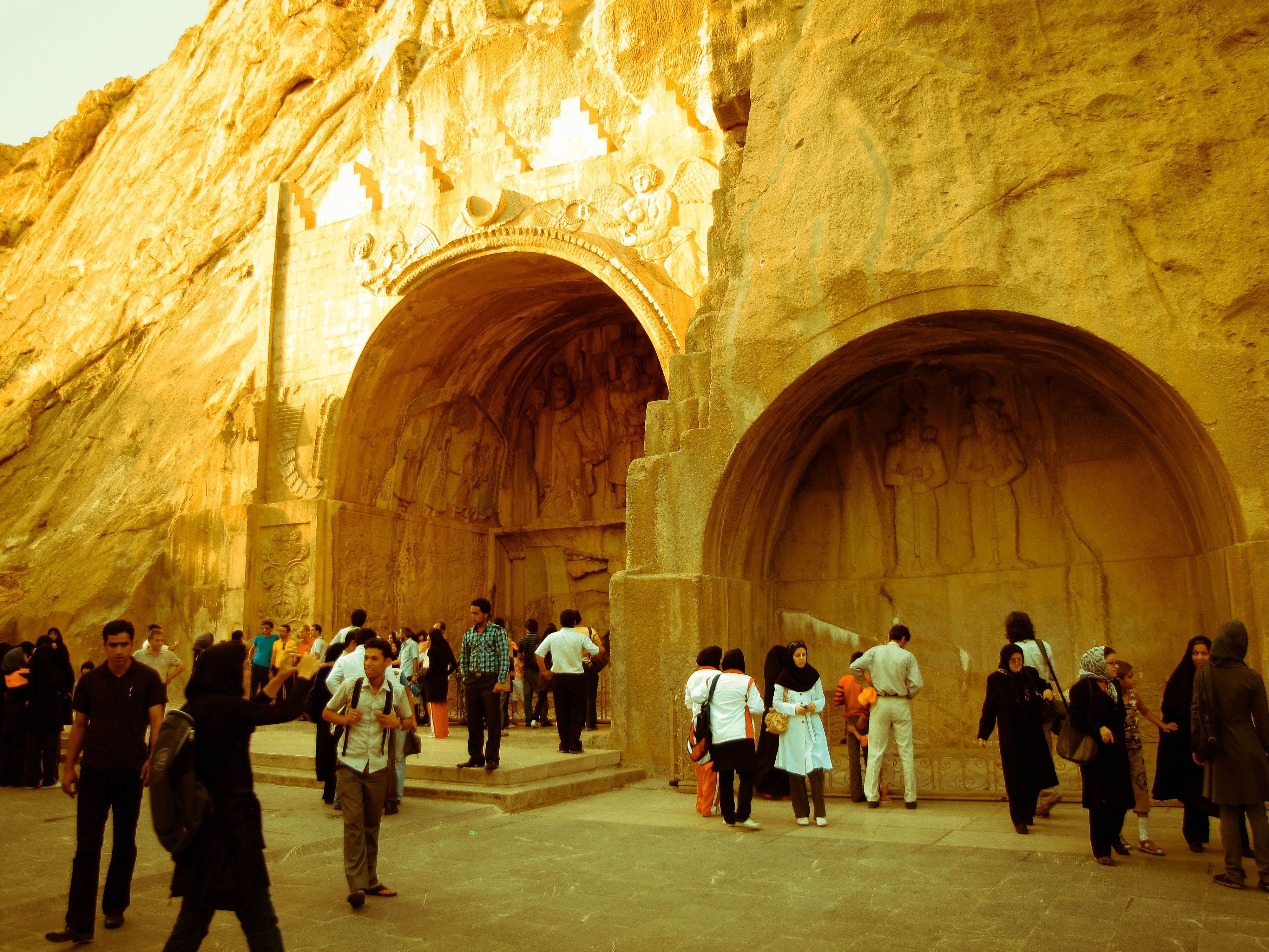 Taq-e Bostan (Taghe bostan) — monumental Sasanian art. Located in Kermanshah province, western Iran, Earth